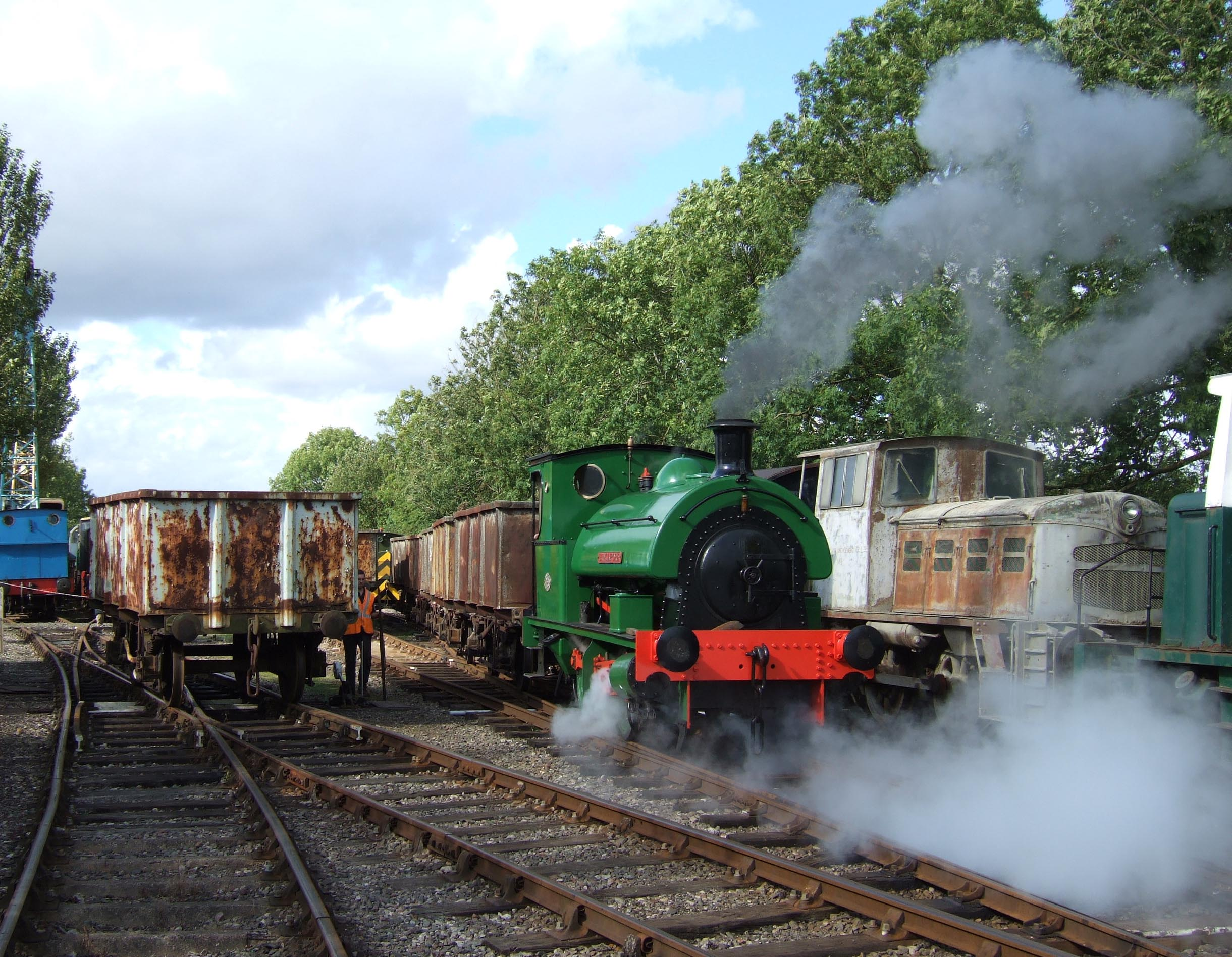 Demonstration Goods Train on the Rutland Railway. The steam locomotive is 'Singapore' Hawthorn Leslie 0-4-0ST 3865 of 1936. Camera - Fuji FinePix F10 Modified - Trimmed and file size reduced using Adobe Photoshop 5.0LE